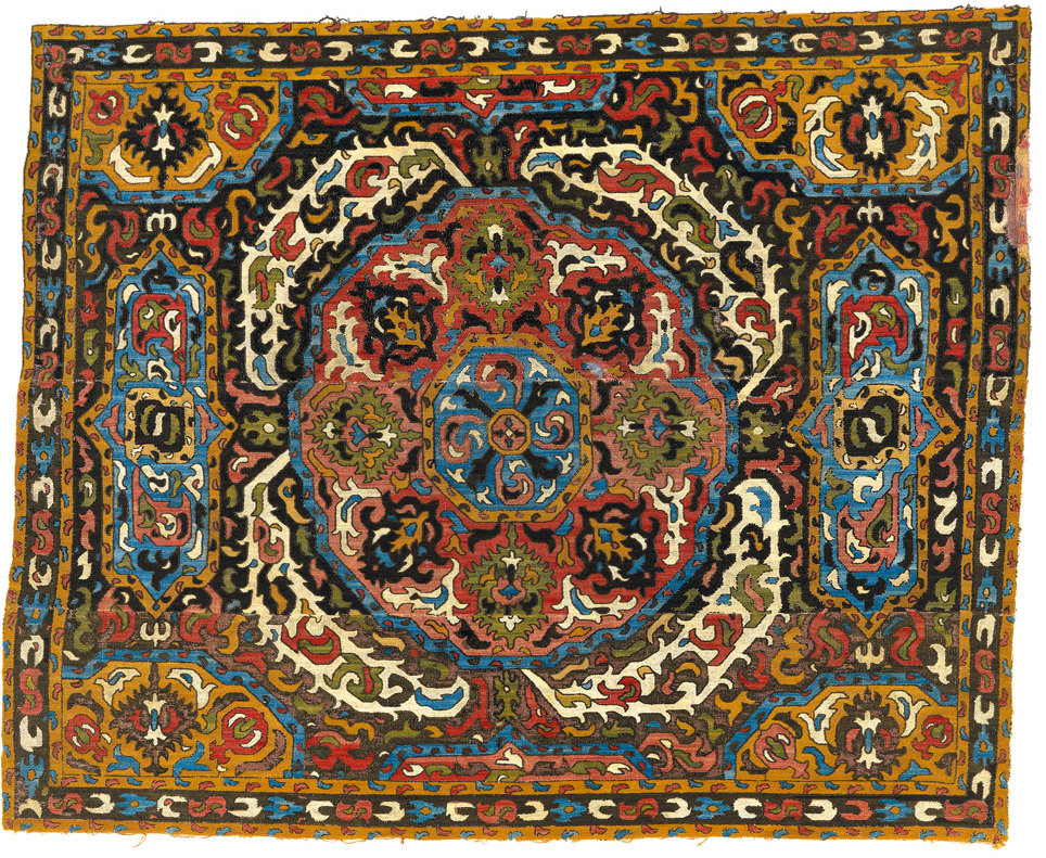 Silk embroidery, greater Azerbaijan, 17th-18th century. Cross stitch on cotton, 1.49 x 1.80 m (4′ 11″ x 5′ 11″). Textile Museum, Washington DC, inv. no. 2.19 To be published in "Stars of the Caucasus—Azerbaijani Embroideries"